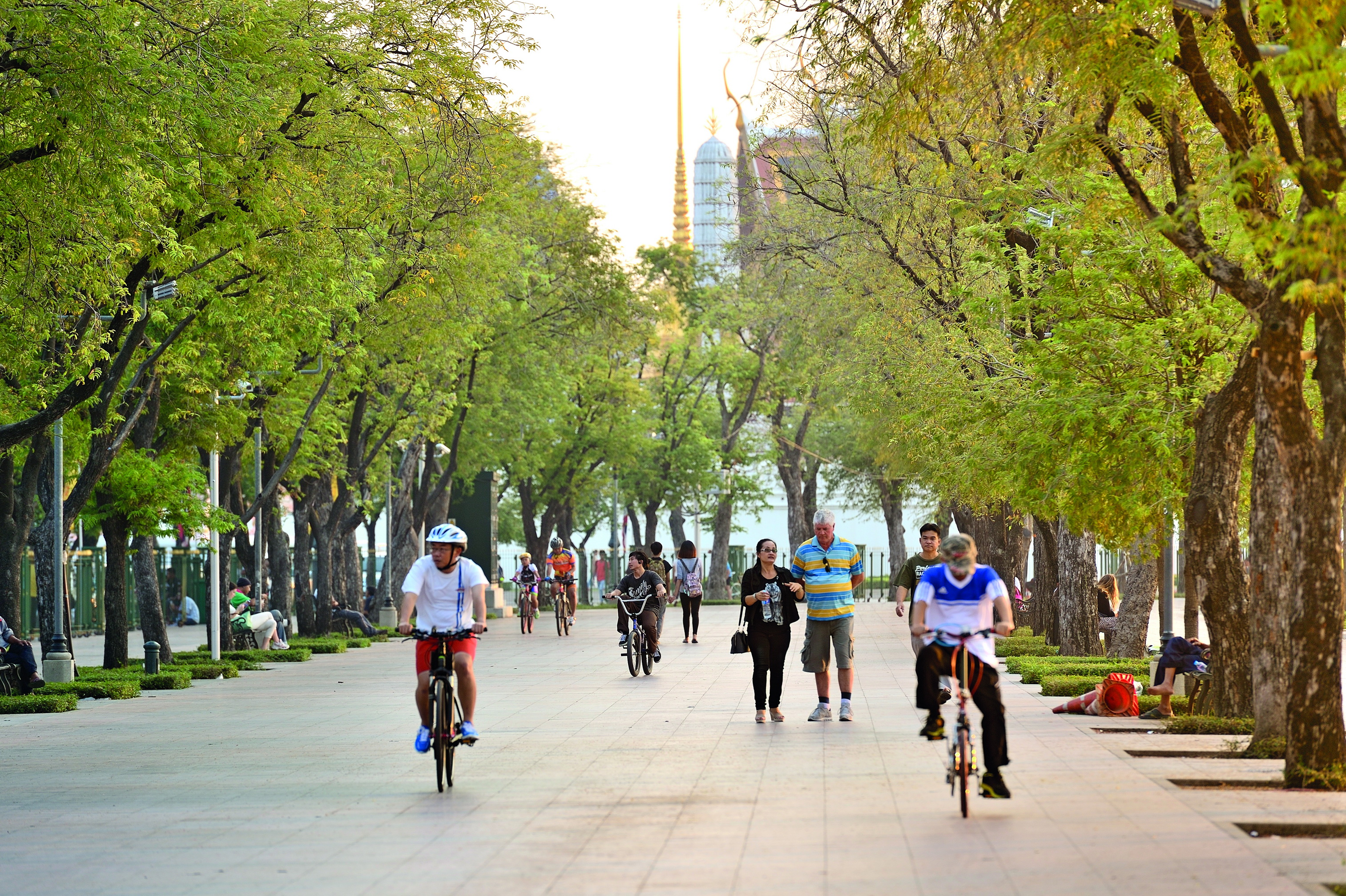 Sanam Luang has long been present since the establishment of Bangkok. It lies between the Grand Royal Palace and the Palace to the Front, known as “Royal Palace” and the “Front Palace”, where Wat Mahathat Yuwaratrangsarit is located in between. Its original name was “ThungPhra Men” as it was used to hold royal cremation of past kings and royal family members. During the reign of King Rama II, the field was an area for flying kites in the beginning of the trade wind season. There was a competition between the royal palace and the front palace in which the royal palace flew a star-shaped kite (Chula or Kula), and the front palace flew a diamond-shaped kite Pak Pao). The sport of kite flying still remains popular until today. This field was also used to grow rice, by order of King Rama III to show that there was an abundant supply of food and a vast number of rice paddies even near the Grand Royal Palace as during that time Thailand had a conflict with Vietnam over Cambodian territory. In 1855, King Rama IV changed its name from “ThungPhra Men” to “Thong SanamLuang” as the former was considered “inauspicious name”, and ordered construction of a pavilion to observe rice culture and a rainmaking ritual which later become the present-day Royal Ploughing ceremony. During the reign of King Rama V, this field was used to organise “Bangkok Centennial Royal Ceremonies marking100 years of the Rattanakosin Era”. Also, King Rama VI set up the place for horse racing. In the reign of the current king, the field was again used to organize “Bangkok Bicentennial Royal Ceremonies marking 200 years of the Rattanakosin Era”. The Department of Fine Arts registered the field as a National Historic Site on 13th December, 1977.